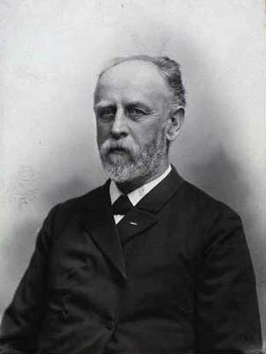 Fritz Albert Christian Rüdinger (1838-1925), Danish cellist and painter